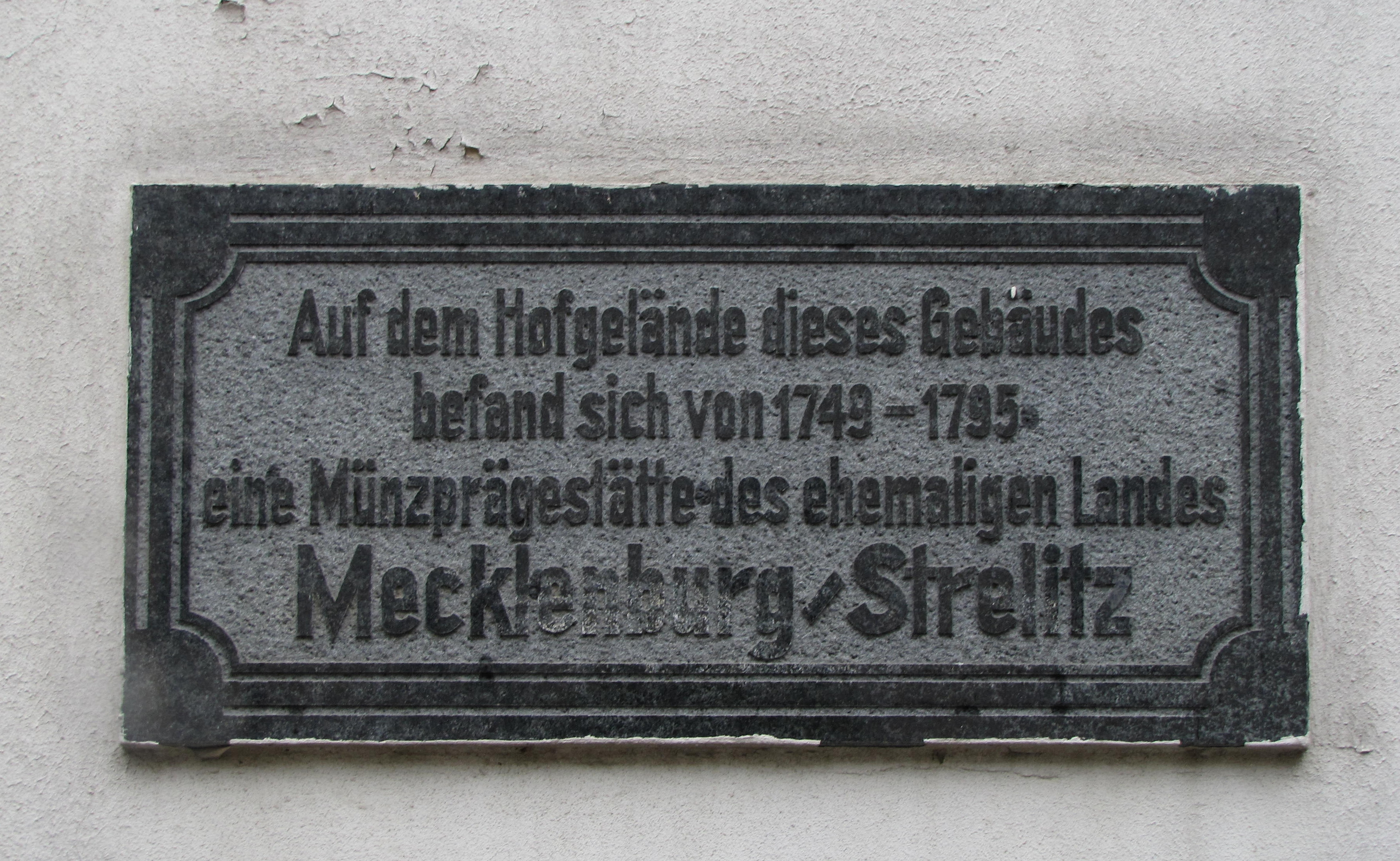 Schlossstrasse 12/13 (Neustrelitz) Plaque commemorating ducal mint